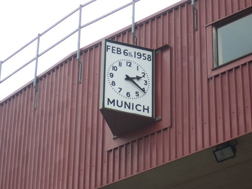 Clock at Manchester United's Old Trafford ground, as a tribute to those who died in the Munich air disaster